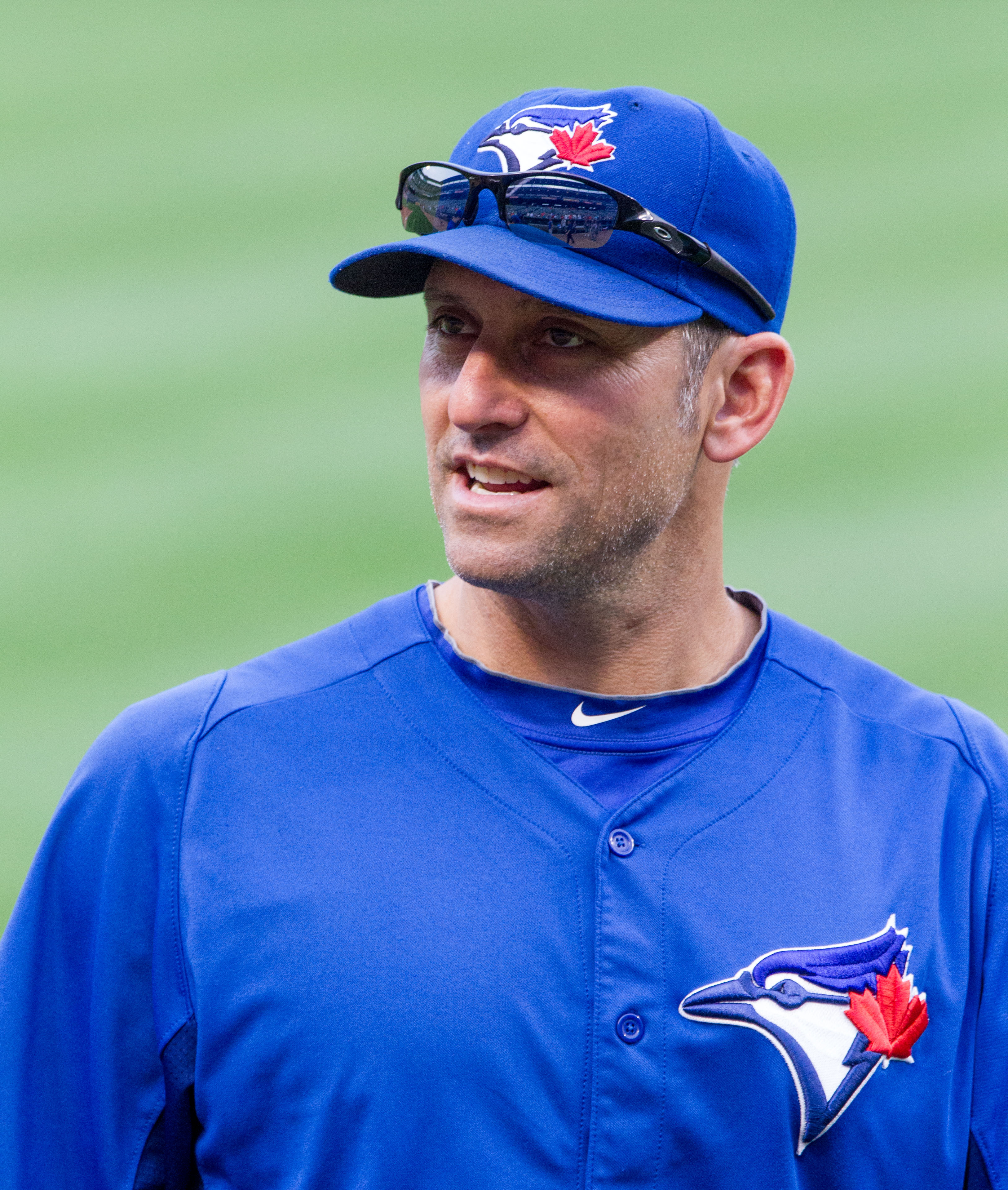 Blue Jays coach Torey Lovullo – Toronto Blue Jays at Baltimore Orioles August 24, 2012